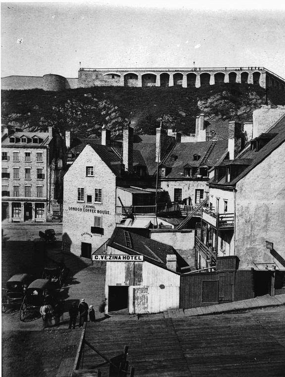 Photograph, Lower Town looking towards Citadel, Quebec City, QC, 1870-75, James George Parks, Silver salts on paper mounted on card - Albumen process - 10 x 17.8 cm